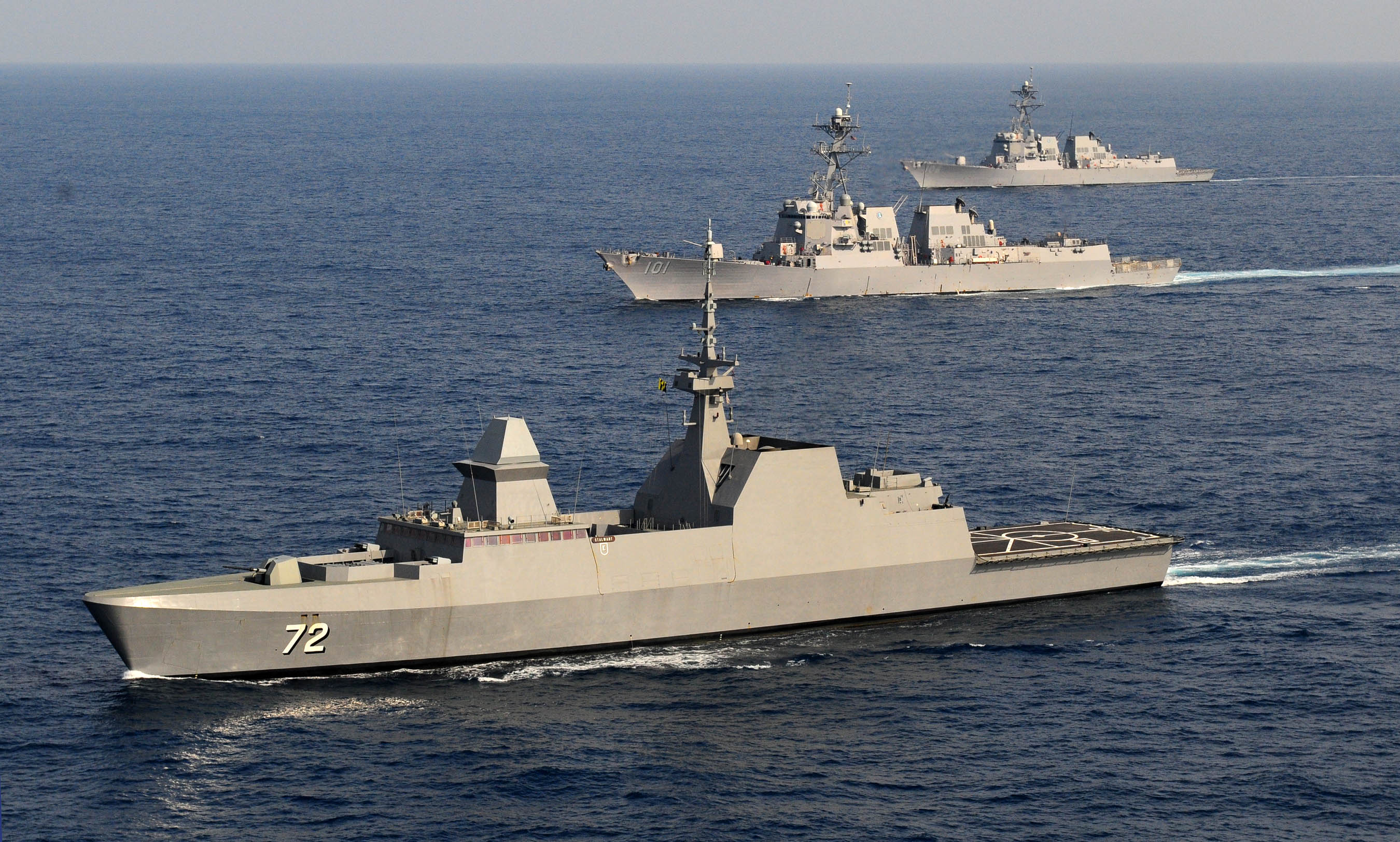 Pacific Ocean – The guided-missile destroyers USS Gridley (DDG 101), center, and USS Stockdale (DDG 106), far right, both assigned to Carrier Srike Group (CSG) 1, cruise in formation with the Republic of Singapore Navy frigate RSS Stalwart (72). Carl Vinson and Carrier Air Wing (CVW) 17 are on deployment to the U.S. 7th Fleet area of responsibility.